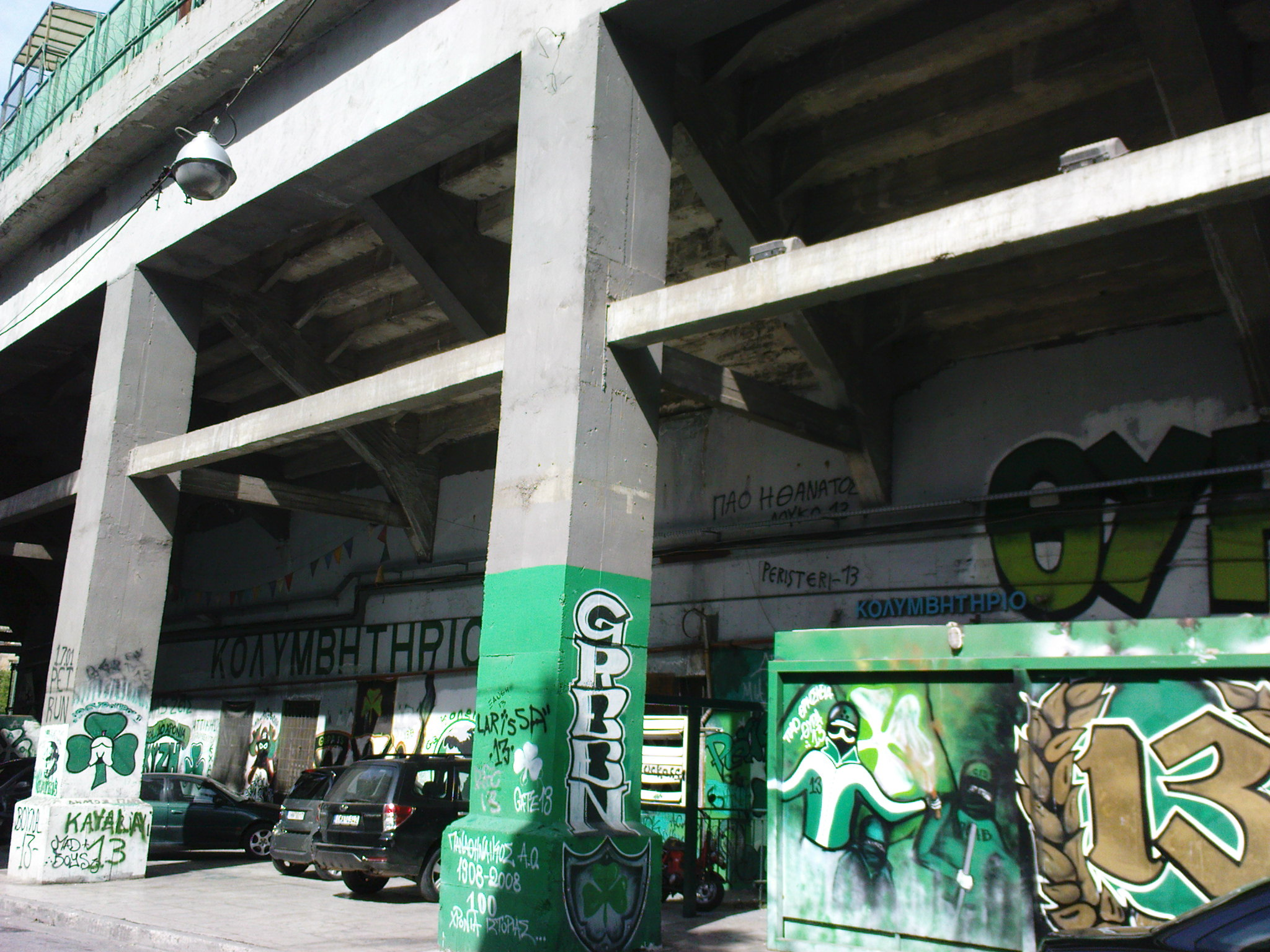 Entrance of the swimming department of Leoforos Stadium